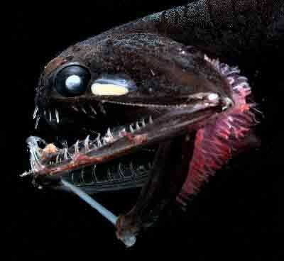 This deep-sea fish, Photostomias guernei, has a built-in bioluminescent "flashlight" it uses to help it see in the dark.